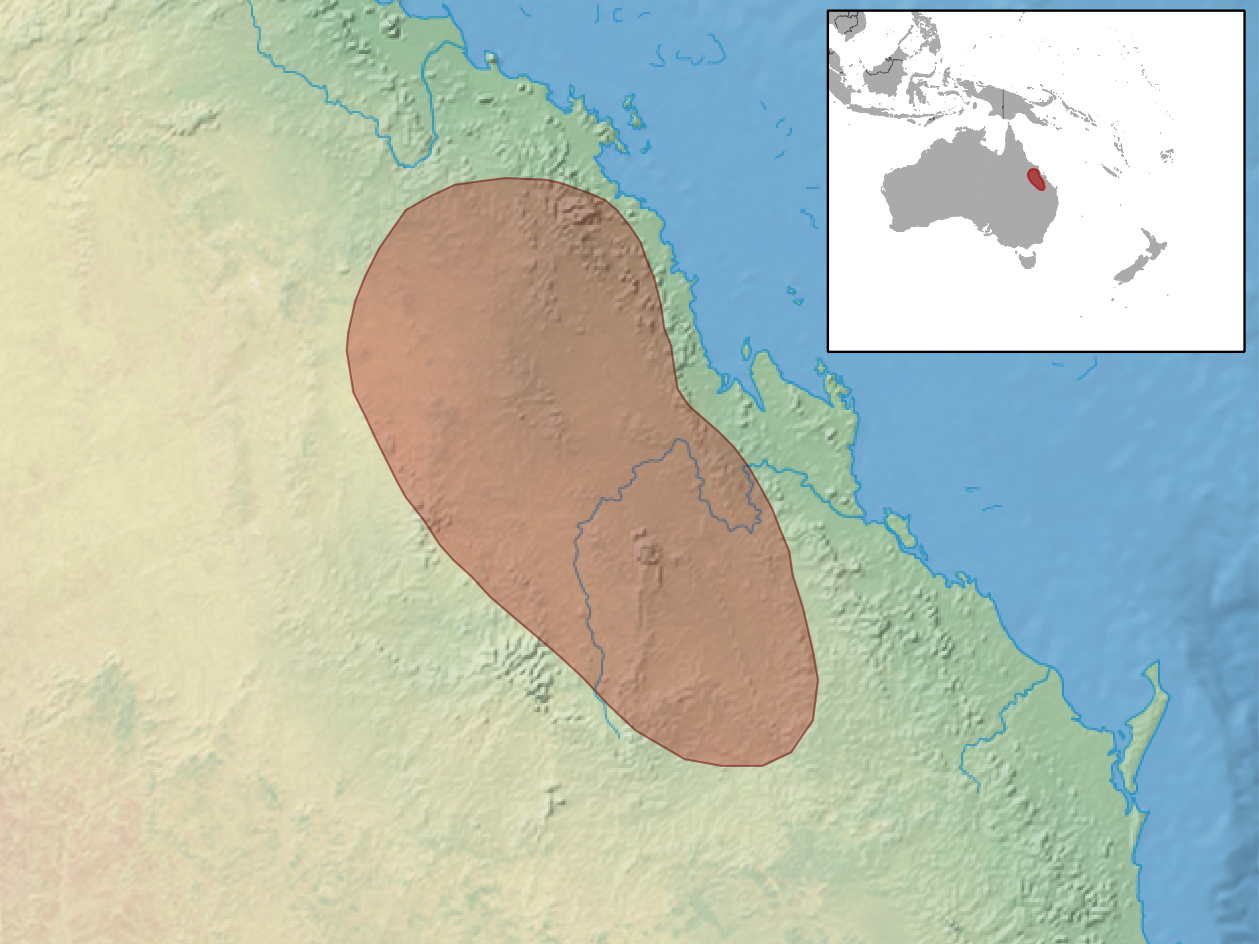 geographic distribution of Anomalopus brevicollis